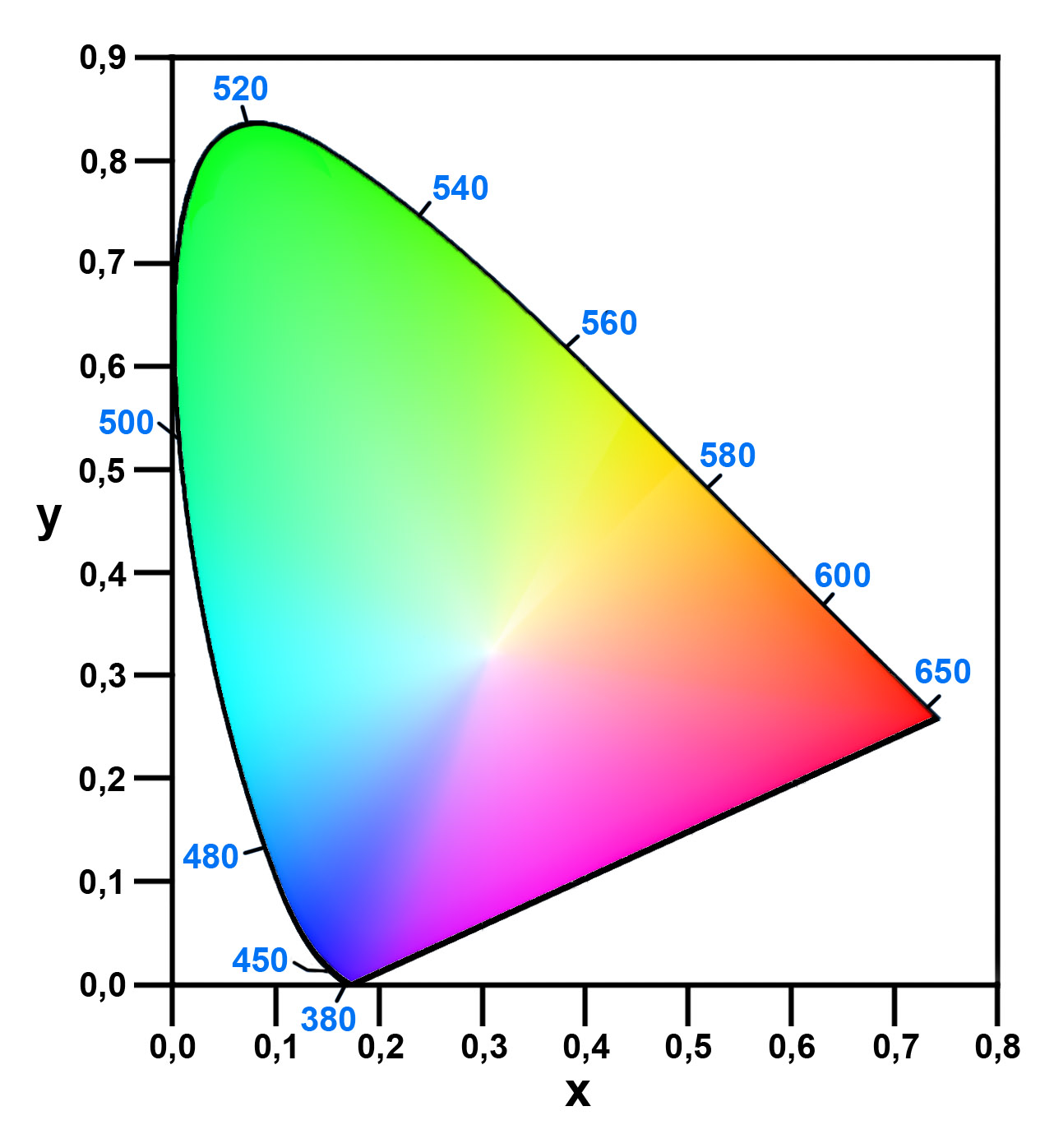 This picture shows the chromaticity diagram developed by CIE (Commission Internationale de l'Éclairage) in 1931 to provide a convenient two-dimensional representation of colors.